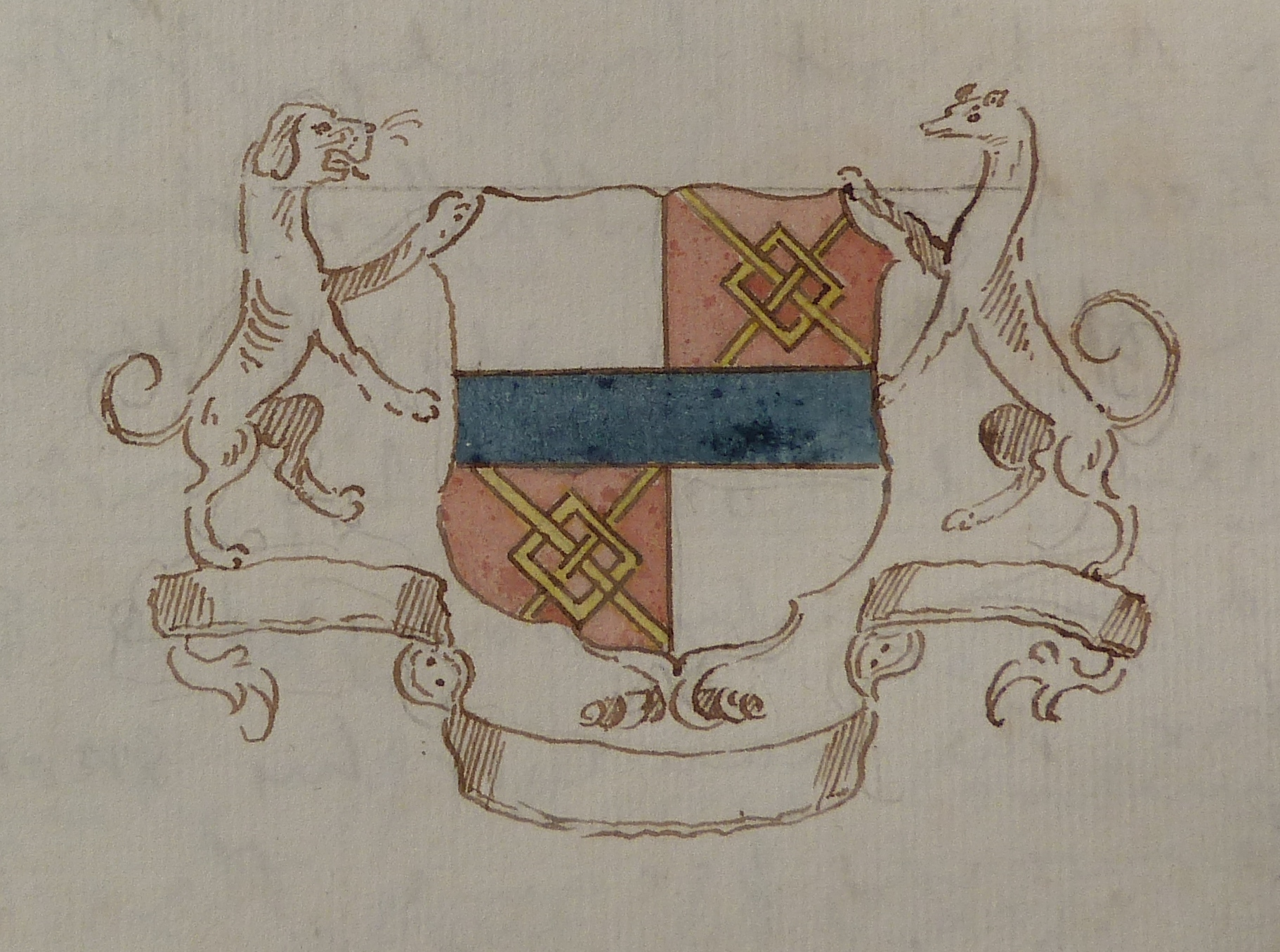 Coat of arms for Henry Norris, 1st Baron Norris of Rycote, Bodleian Library, Oxford: Quarterly 1st & 4th: Argent; 2nd & 3rd: Gules, a fret or; over all a fess azure. These appear to be a differenced version of the arms of Despencer. Norris quartered Norreys had the right to quarter their arms with those of Ravenscroft, Merbrook, De Vere (after 1526), De Bolbec, De Sanford, De Badlesmere, Sergeaux, De Arundel, Lovell, Deincourt, Grey, Holland, Fiennes (after 1594), Dacre, De Multon, Bowet, Ufford, FitzHugh, Williams, Iestyn ap Gwrgant, Moore and Bledlow.